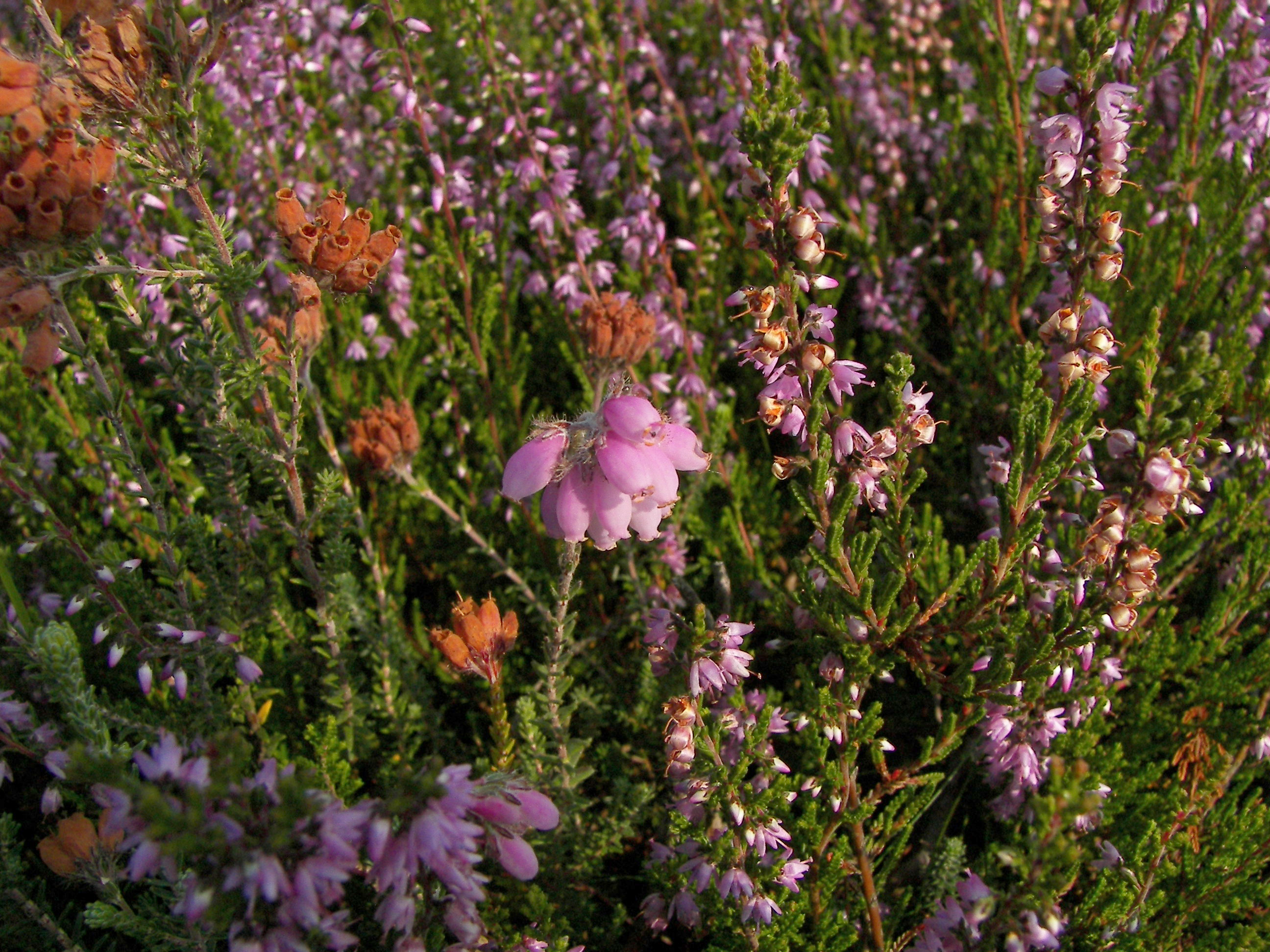 Erica tetralix near Schneverdingen, Lower Saxony, Germany